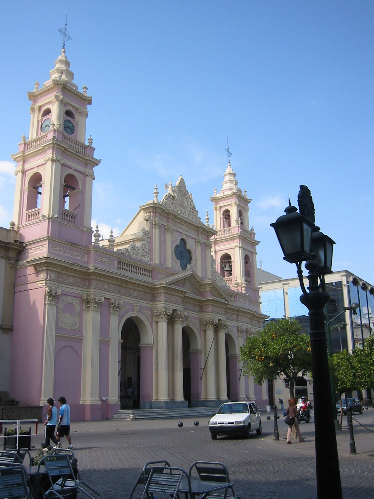 Cathedral facade Salta city (Argentina).